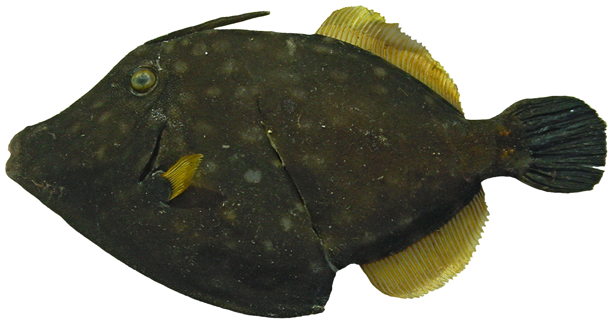 Cantherhines macrocerus (Hollard, 1853)—whitespotted filefish, 273 mm SL, image flipped horizontally – right side is shown. Photo by W Toller.